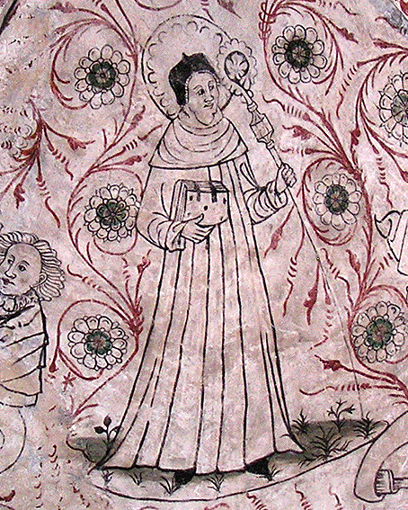 Saint Bernard of Clairvaux, fresco al secco in the church of Överselö, Sweden, circa 1400